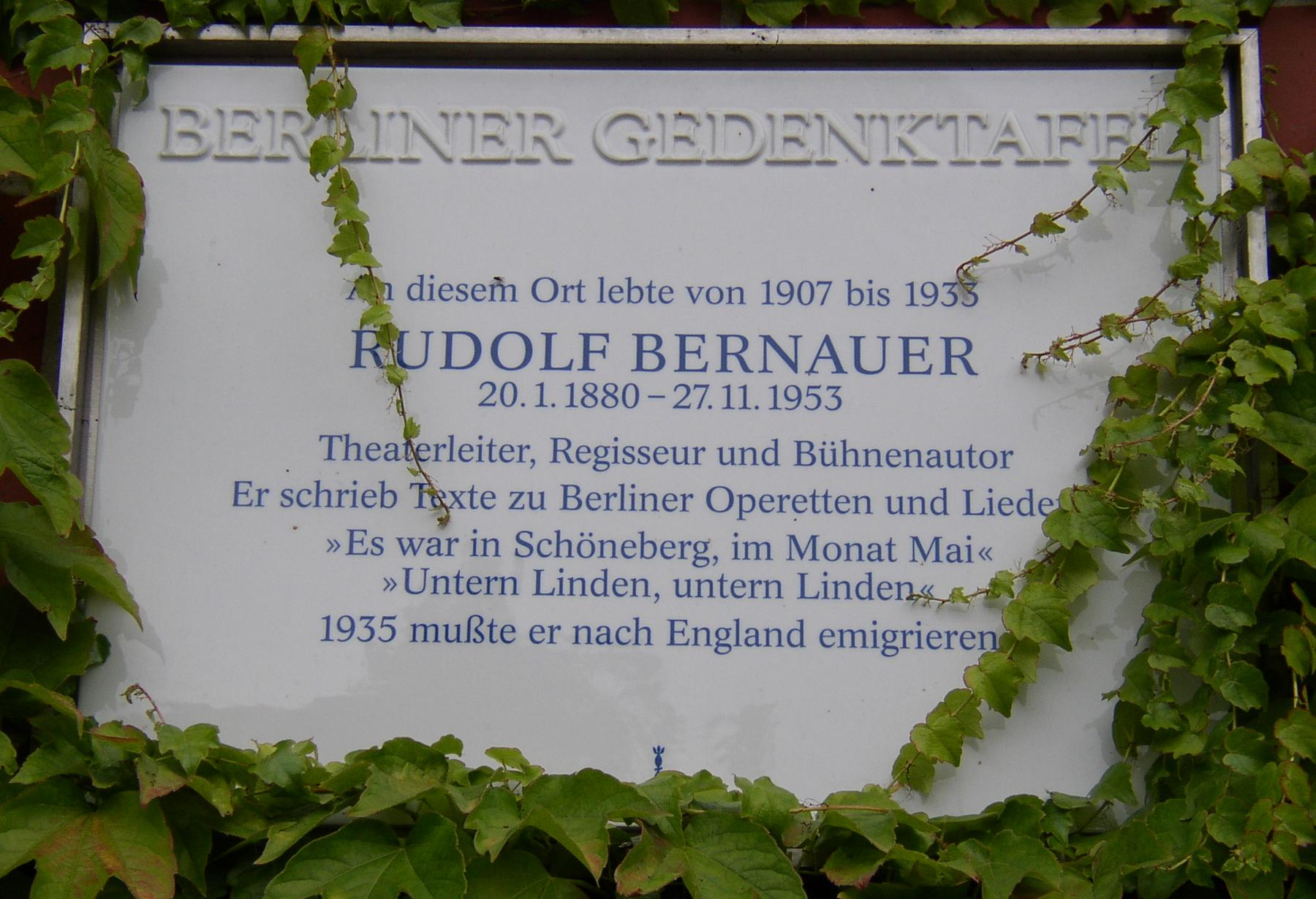 Berlin memorial plaque for Rudolf Bernauer in Berlin-Schöneberg, Germany